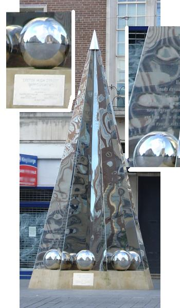 Picture of the stainless steel pyramid in Exeter High St with the Exeter Riddle inscribed on it. The words are reversed, so as to be readable in the reflections.